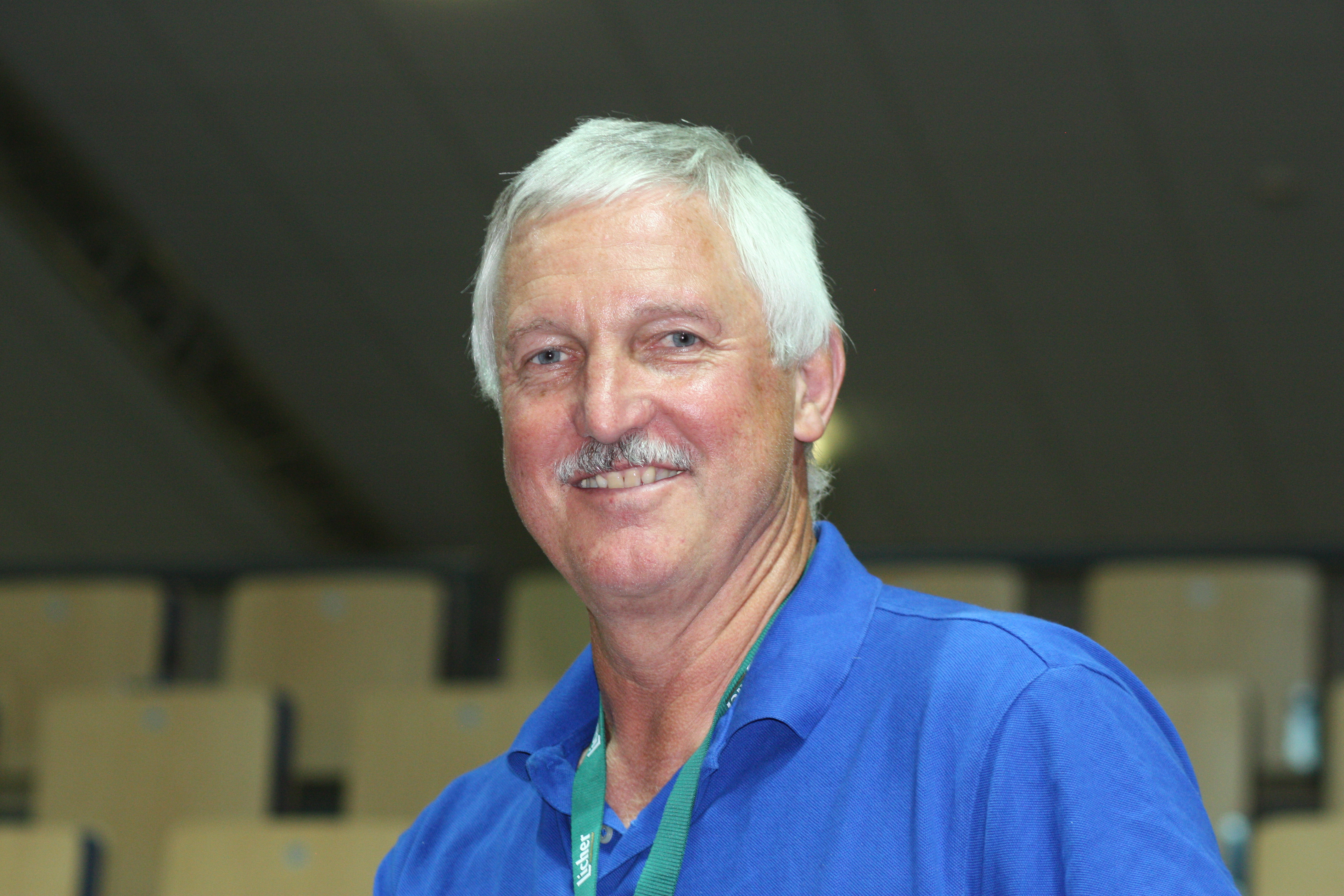 Horst Spengler, German handball player, world champion 1978, picture taken 2013 in the Rittal-Arena, Wetzlar, Germany